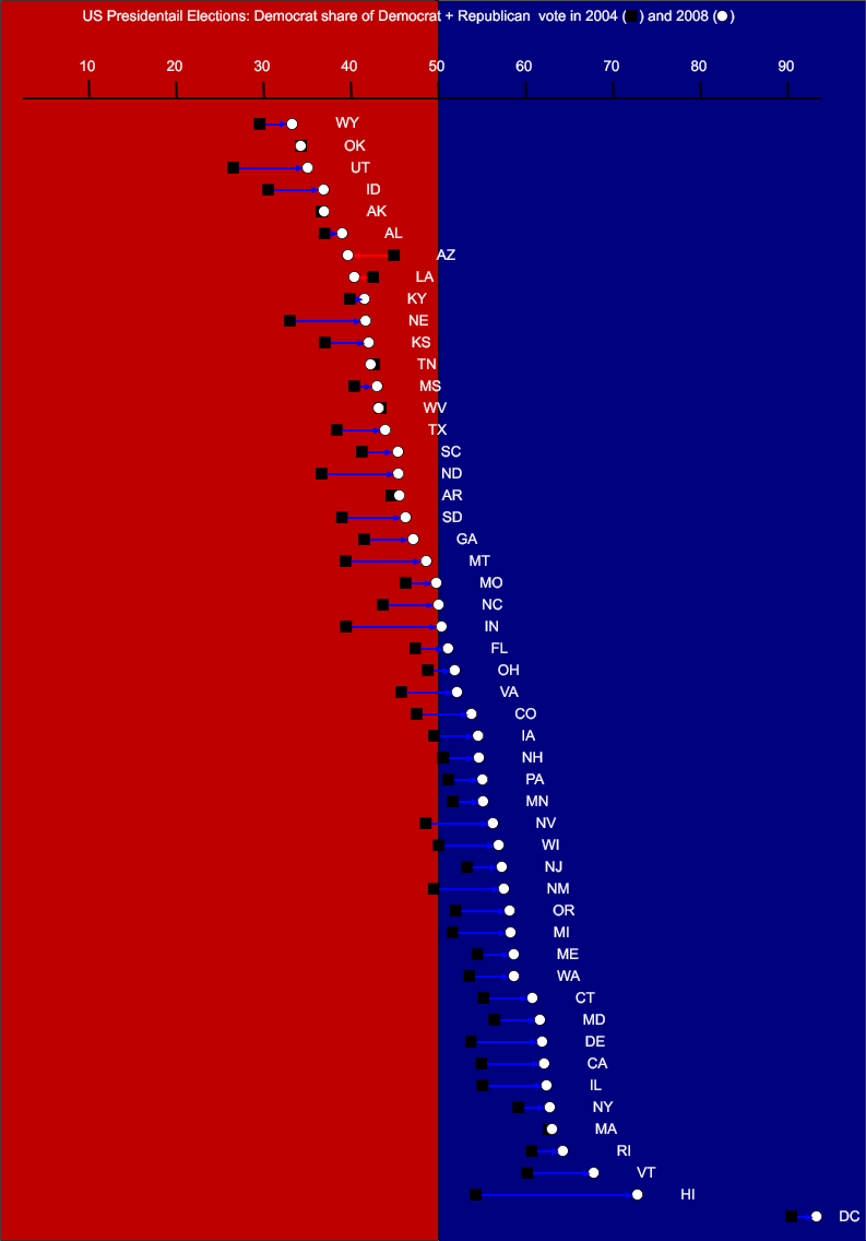 Presidential Election Result by State 2004 - 2008